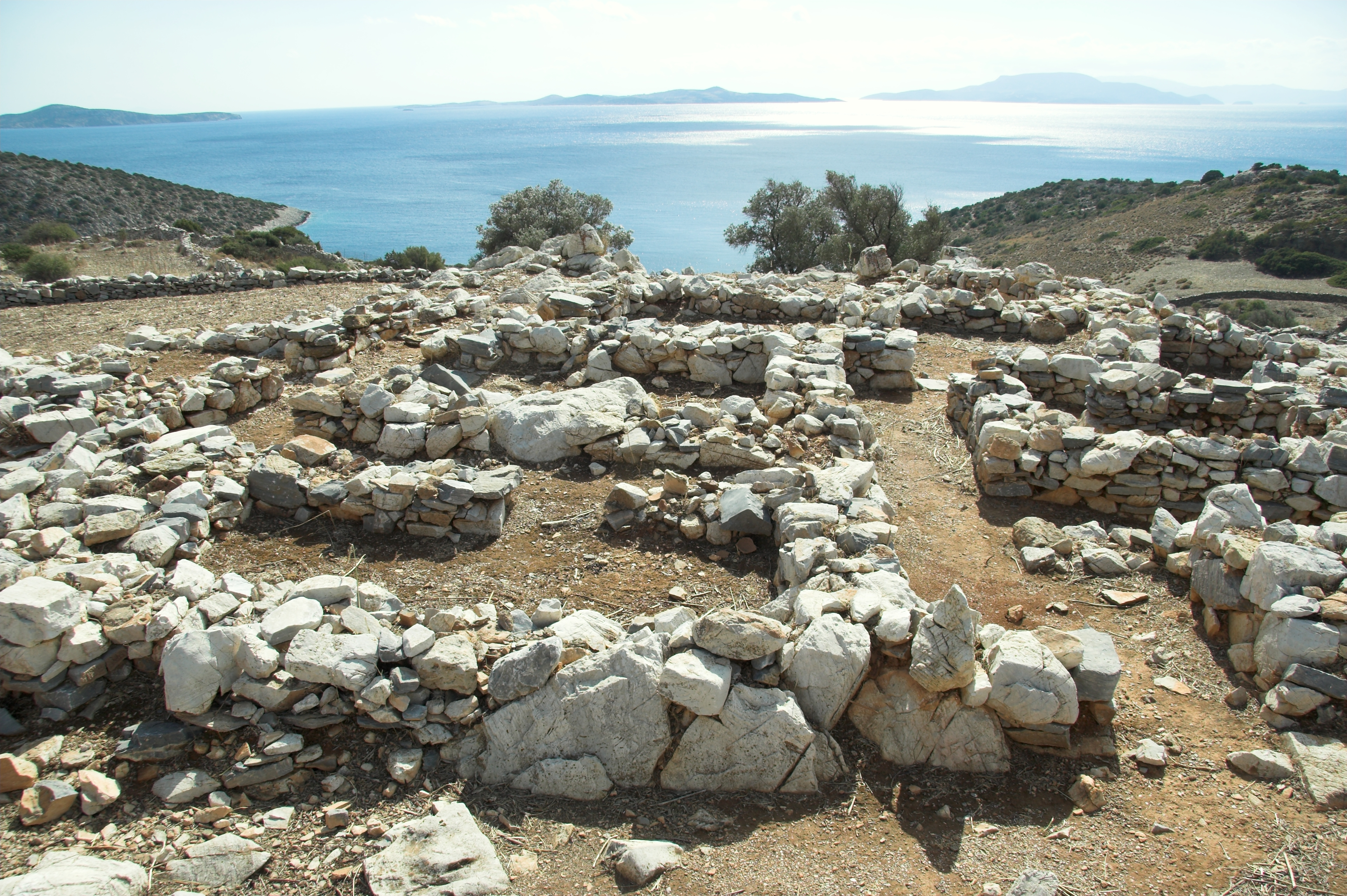 Early Cycladic settlement in Korfari ton Amygdalon over the bay of Panormos, Naxos, Early Bronze Age.